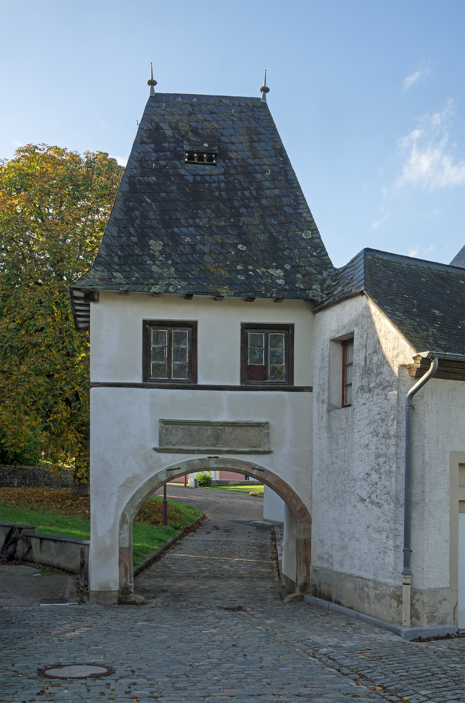 Turret of the former castle in Wilwerwiltz